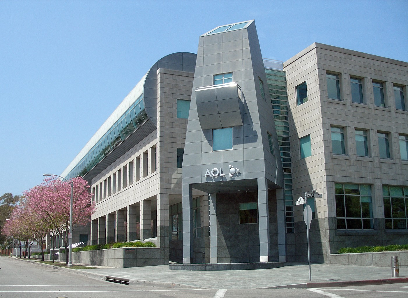 The branch office of AOL in Beverly Hills.